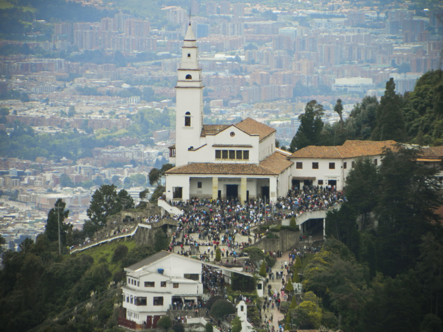 The Monserrate Sanctuary taken from the Guadalupe Monastery